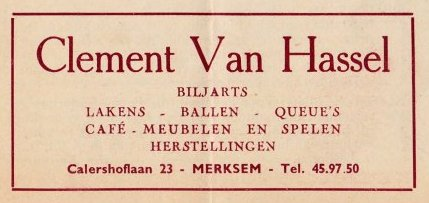 see file name